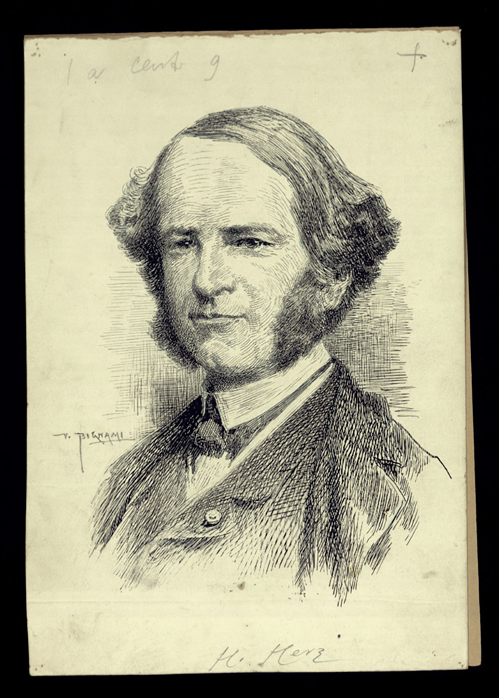 Portrait of Henri Herz, composer (1803-1888), before 1929.